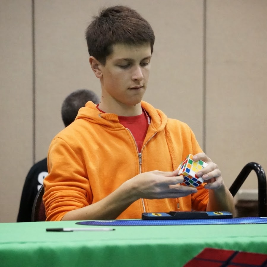 Feliks Zemdegs, the World Record on Average time.